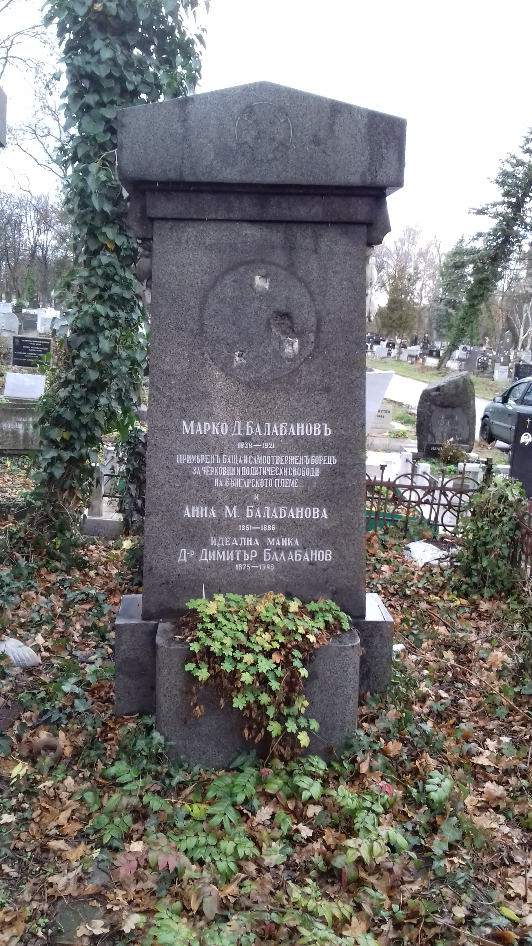 Marko Balabanov's Grave